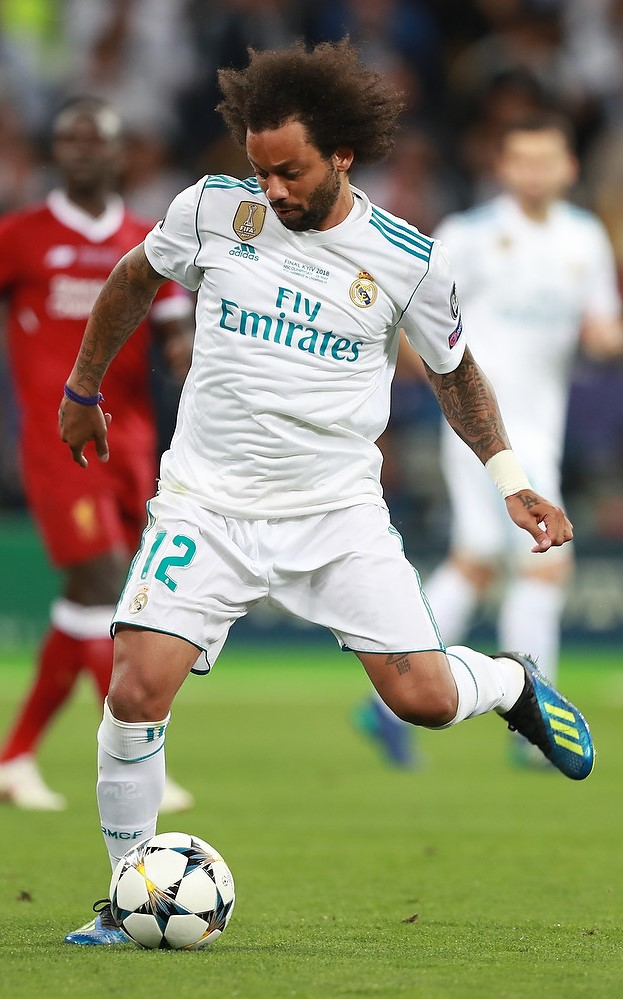 Marcelo Vieira